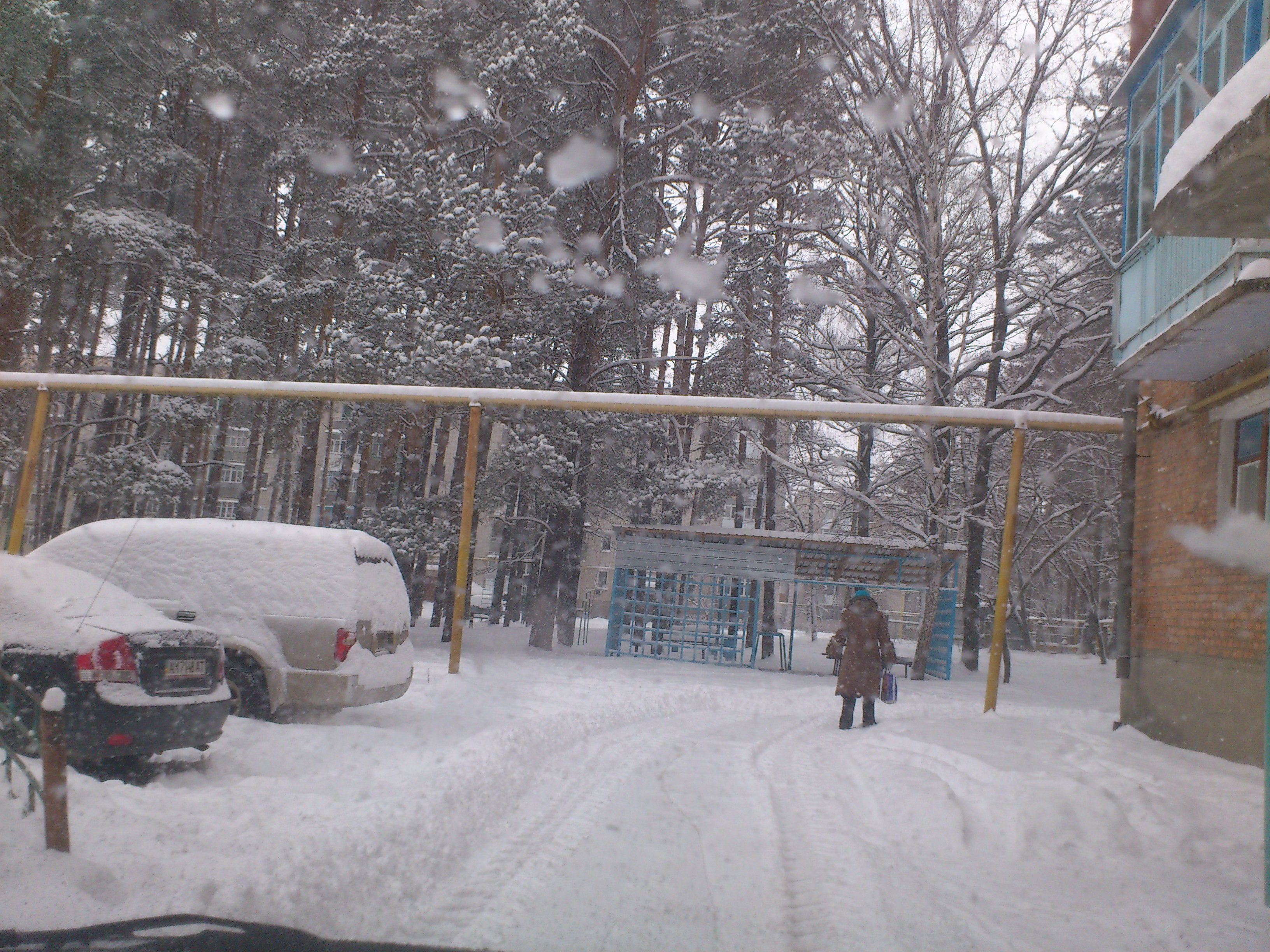 Irshansk, a yard in the town